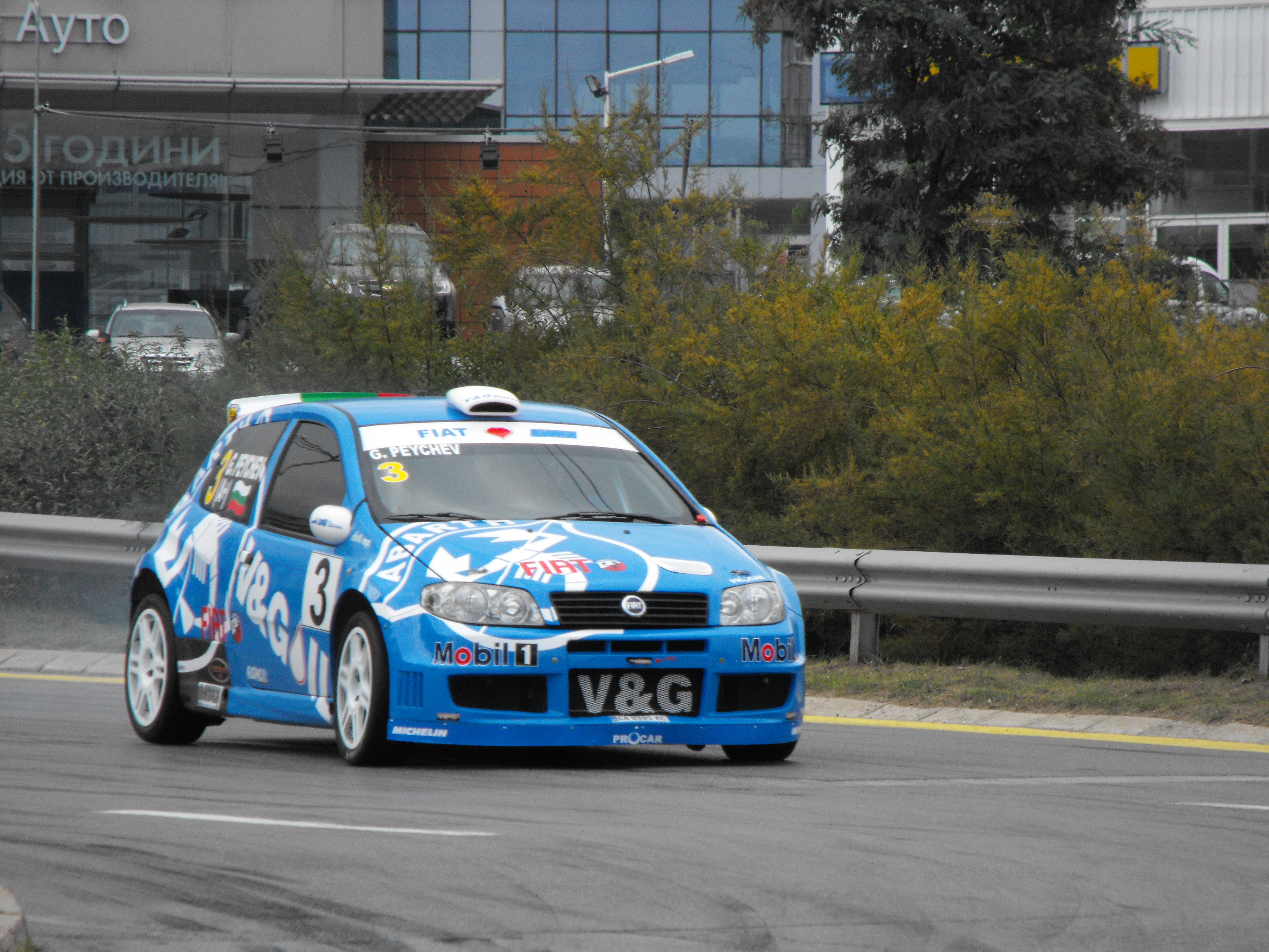 Georgi Peychev - bulgarian racecar driver, fly with own FIAT PUNTO ABARTH S 1600 (V & G Team). Rallye SOFIA 2009